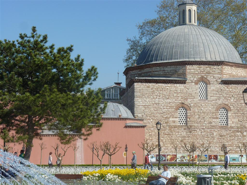 Haseki Hürrem Sultan Hamamı, April 2013